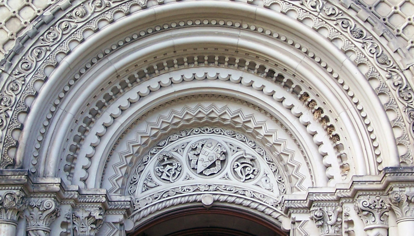 Entrance of the main building of University College, Toronto